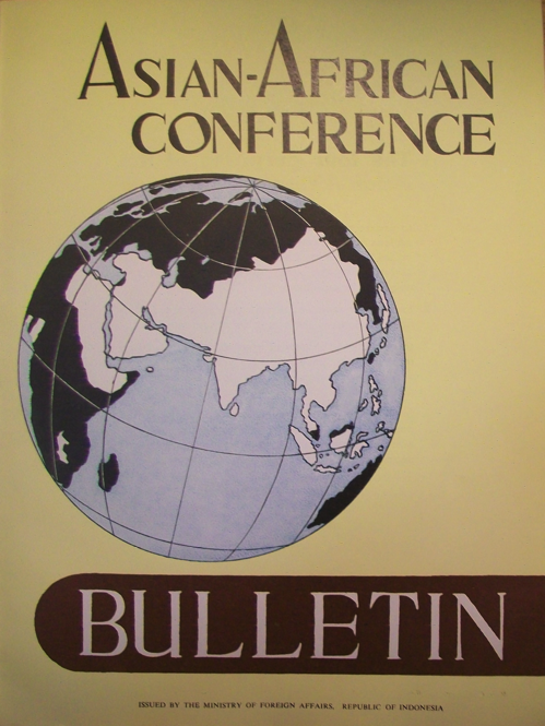 Title of the Asian-African Bulletin of the Bandung Conference.